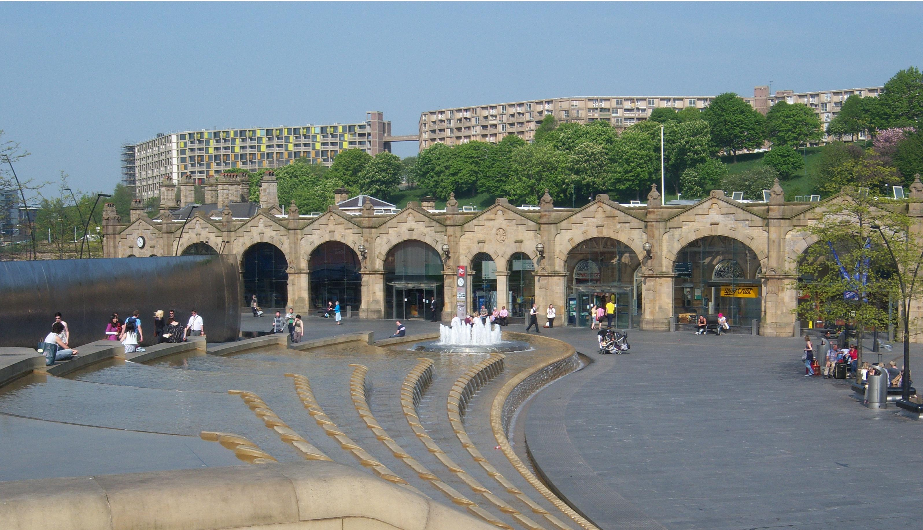 The facade of Sheffield Railway Station in the city of Sheffield, UK. In the foreground is Sheaf Square, which in recent years has been redeveloped to improve the entrance to the station.